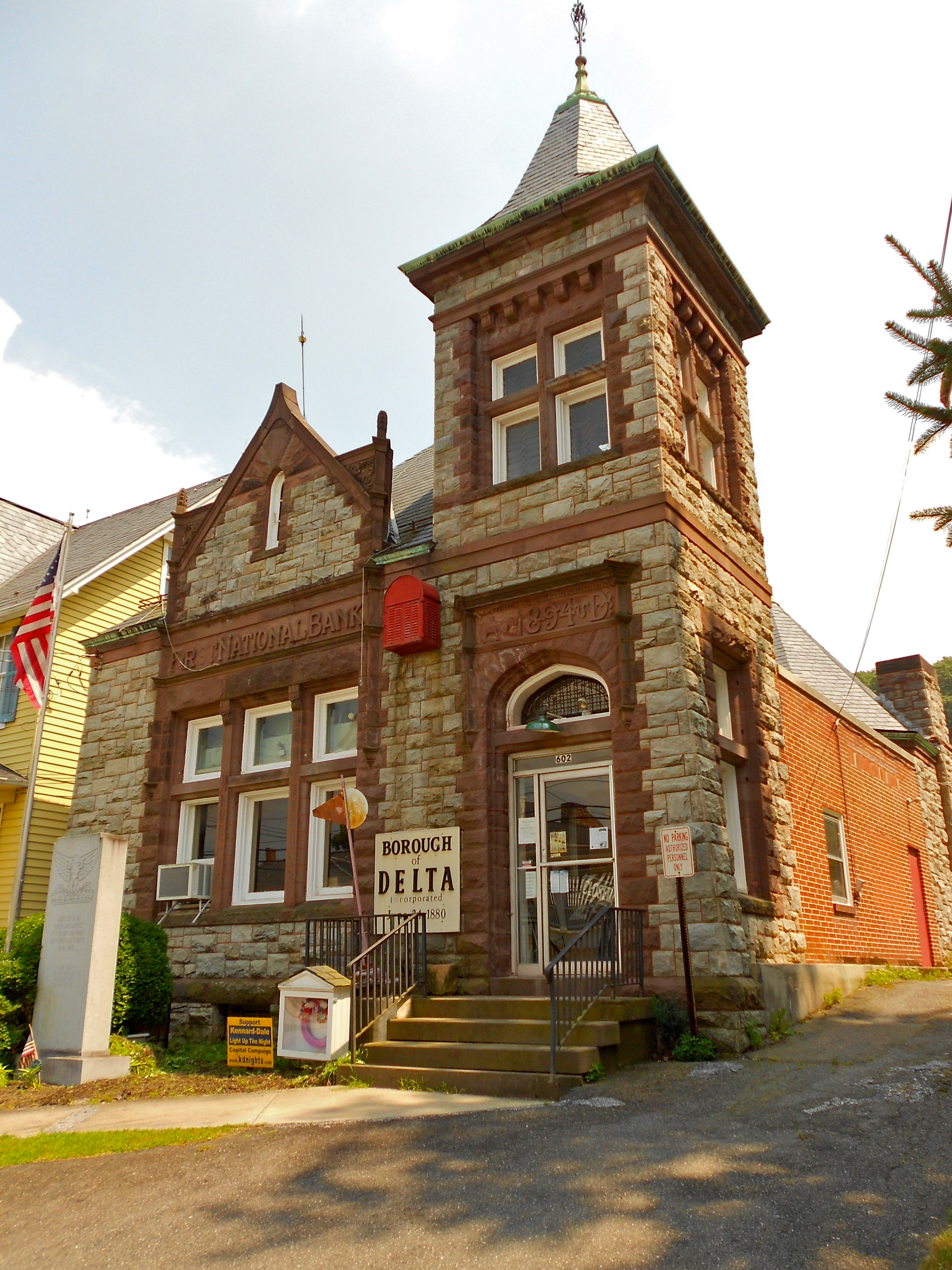 602 Main Street in Delta, York County, Pennsylvania, currently the Borough Hall and a local museum. Formerly the 1st National Bank. In the Delta Historic District.